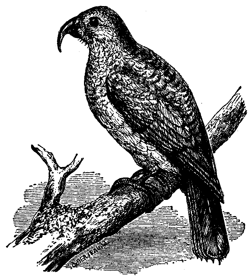 Extinct Phillip-Island Parrot (Nestor productus). (From specimen in the British Museum. Reduced.) Cleaned version of scanned EB image taken from